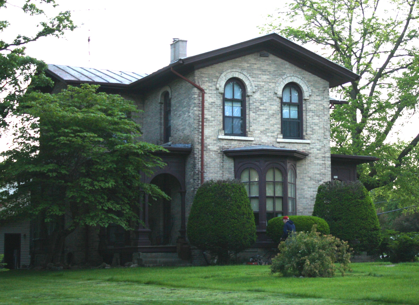 The front view of the Fred and Lucia Farnham House in Columbus, Wisconsin. It is listed on the National Register of Historic Places.